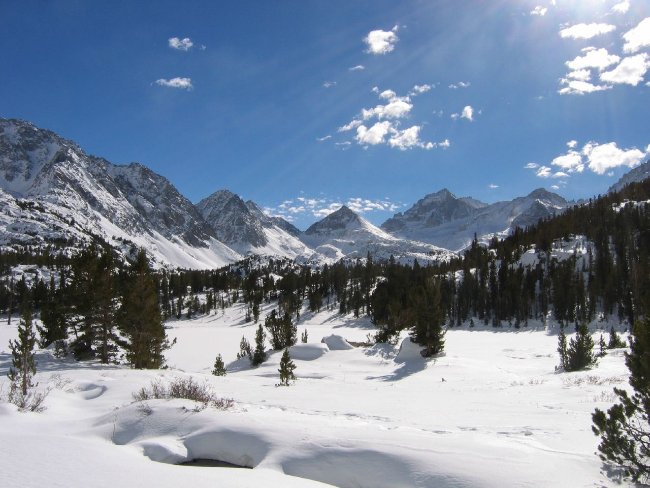 Snow on Mount Morgan in the Sierra Nevada. Mono County, California, USA.Peaks